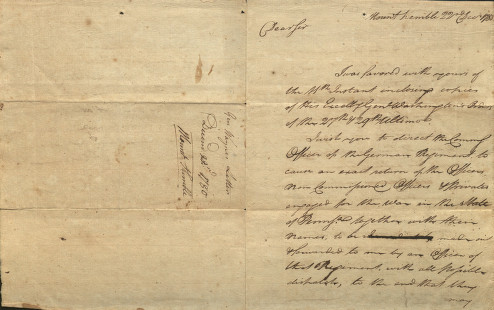 Correspondence from General Anthony Wayne to Shreve on December 22, 1780. Includes an additional note to Shreve on December 25, 1780. Sent from Mount Kemble.